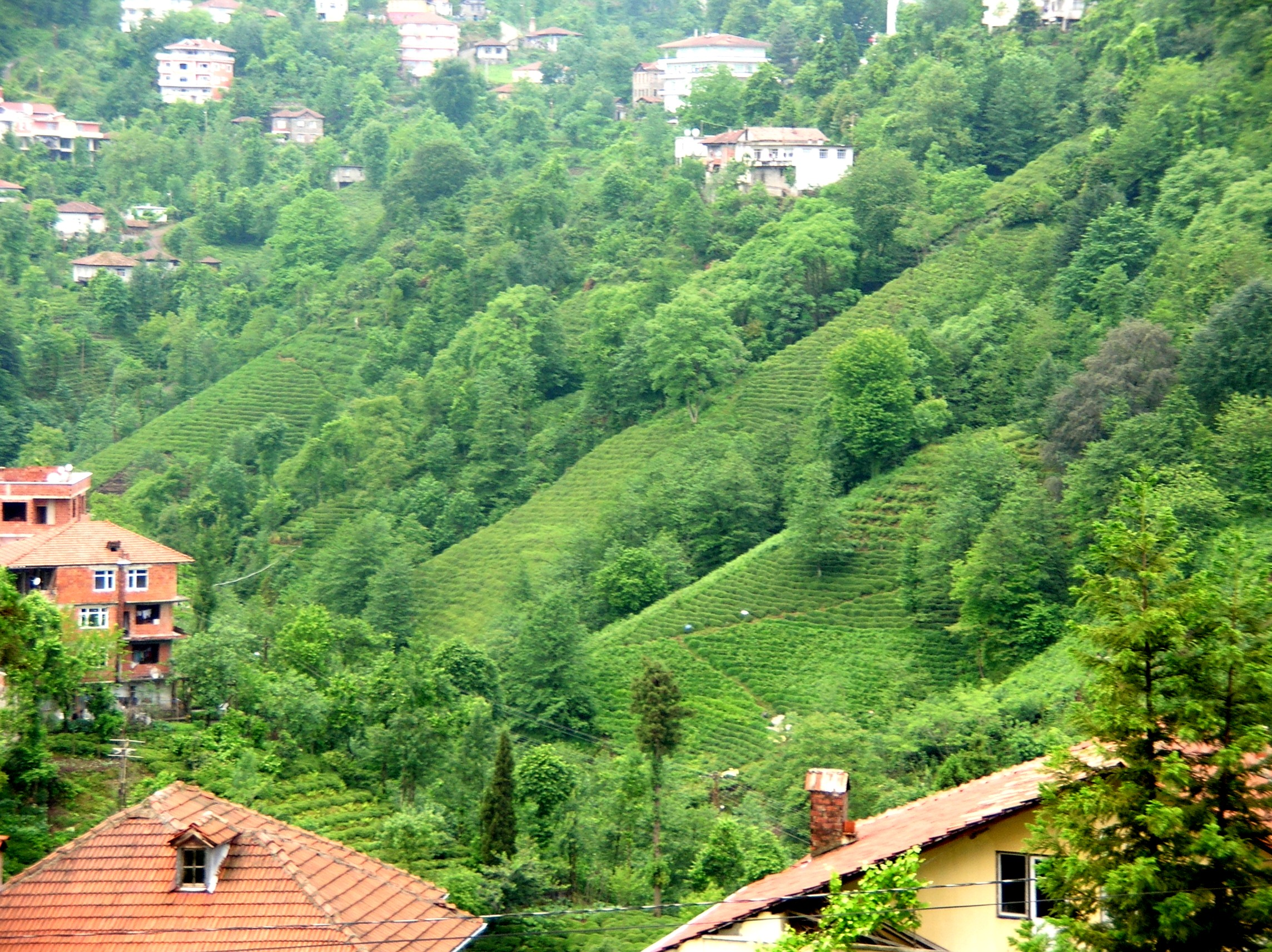 Rea growing in Rize, northeastern Turkey